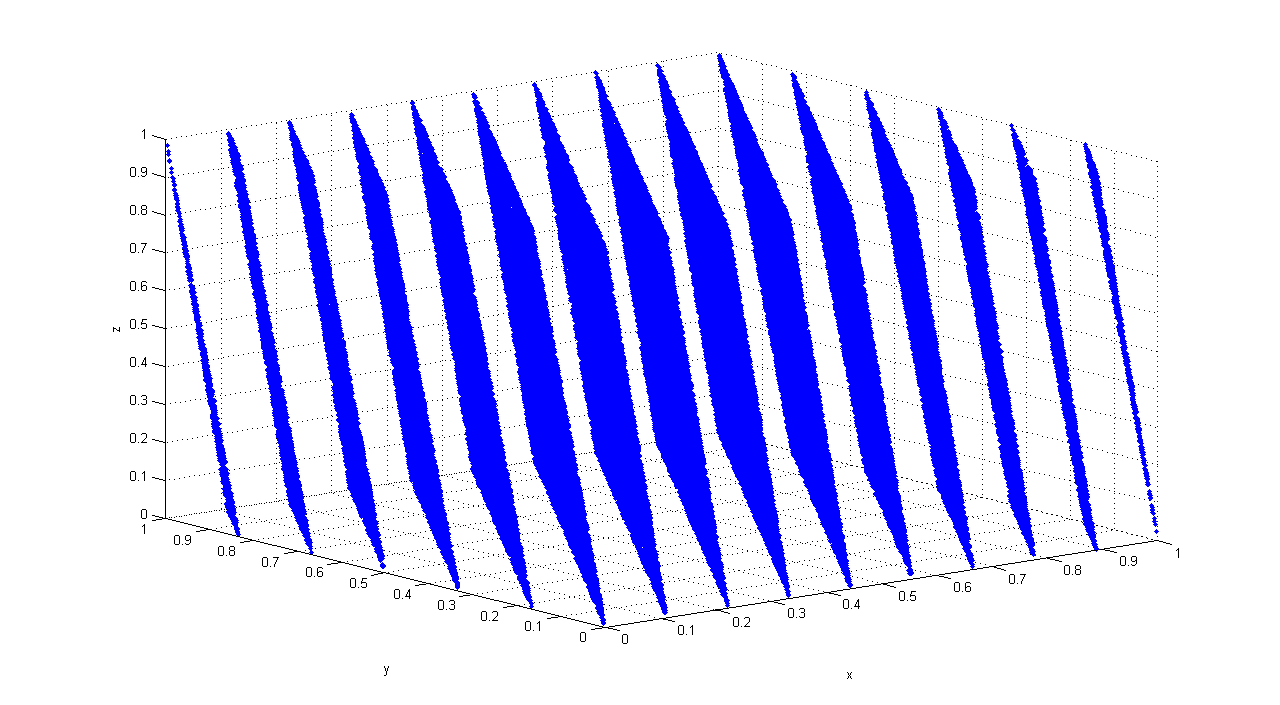 Created in MATLAB by generating 100002 values using RANDU and plotting them as 100000 consecutive triples (x,y,z).